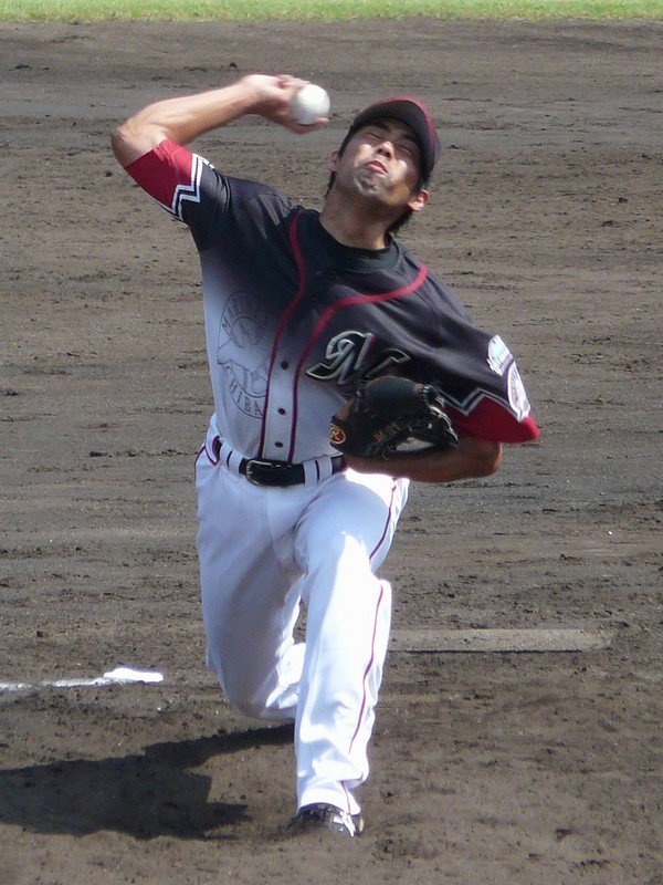 Yoshihide-Kanda